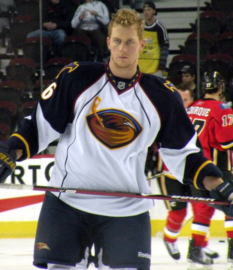 Atlanta Thrashers defenceman Christoph Schubert prior to a National Hockey League game against the Calgary Flames, in Calgary.